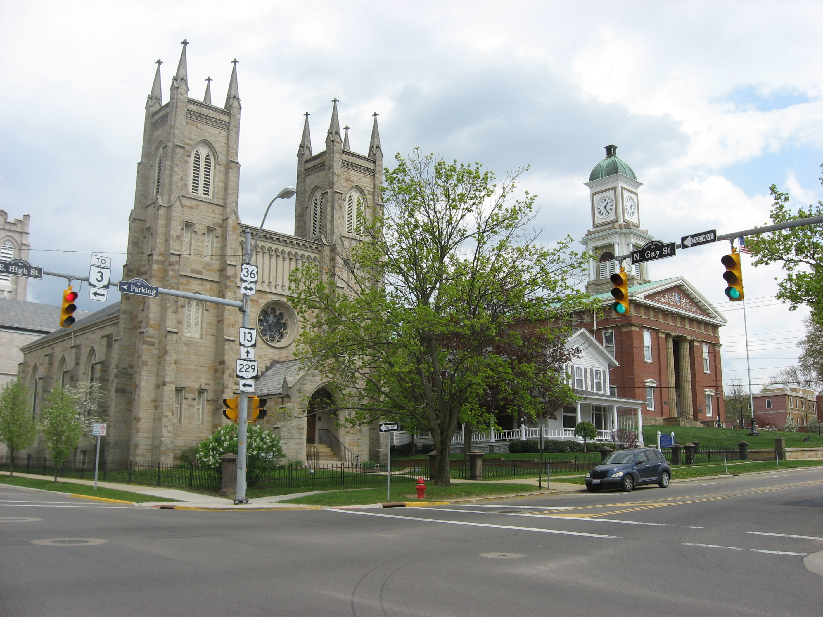 Buildings along E. High Street (U.S. Route 36) in downtown Mount Vernon, Ohio, United States. In the foreground is St. Paul's Episcopal Church, and the Knox County Courthouse is visible behind. These buildings are part of the East High Street Historic District, a historic district that is listed on the National Register of Historic Places.